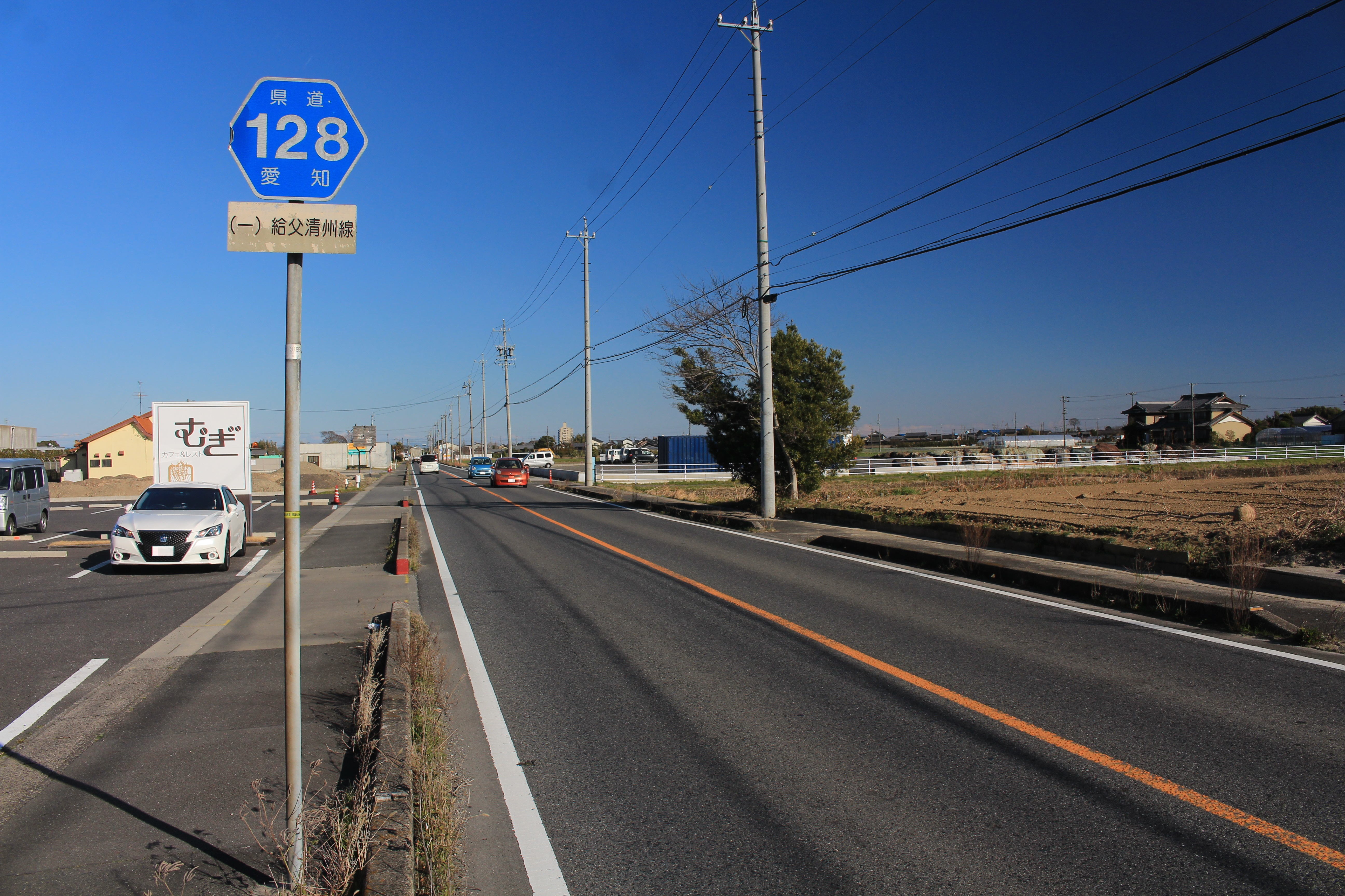 Aichi Prefectural Road Route 128 in Teraura, Utasu, Aisai, Aichi prefecture, Japan.